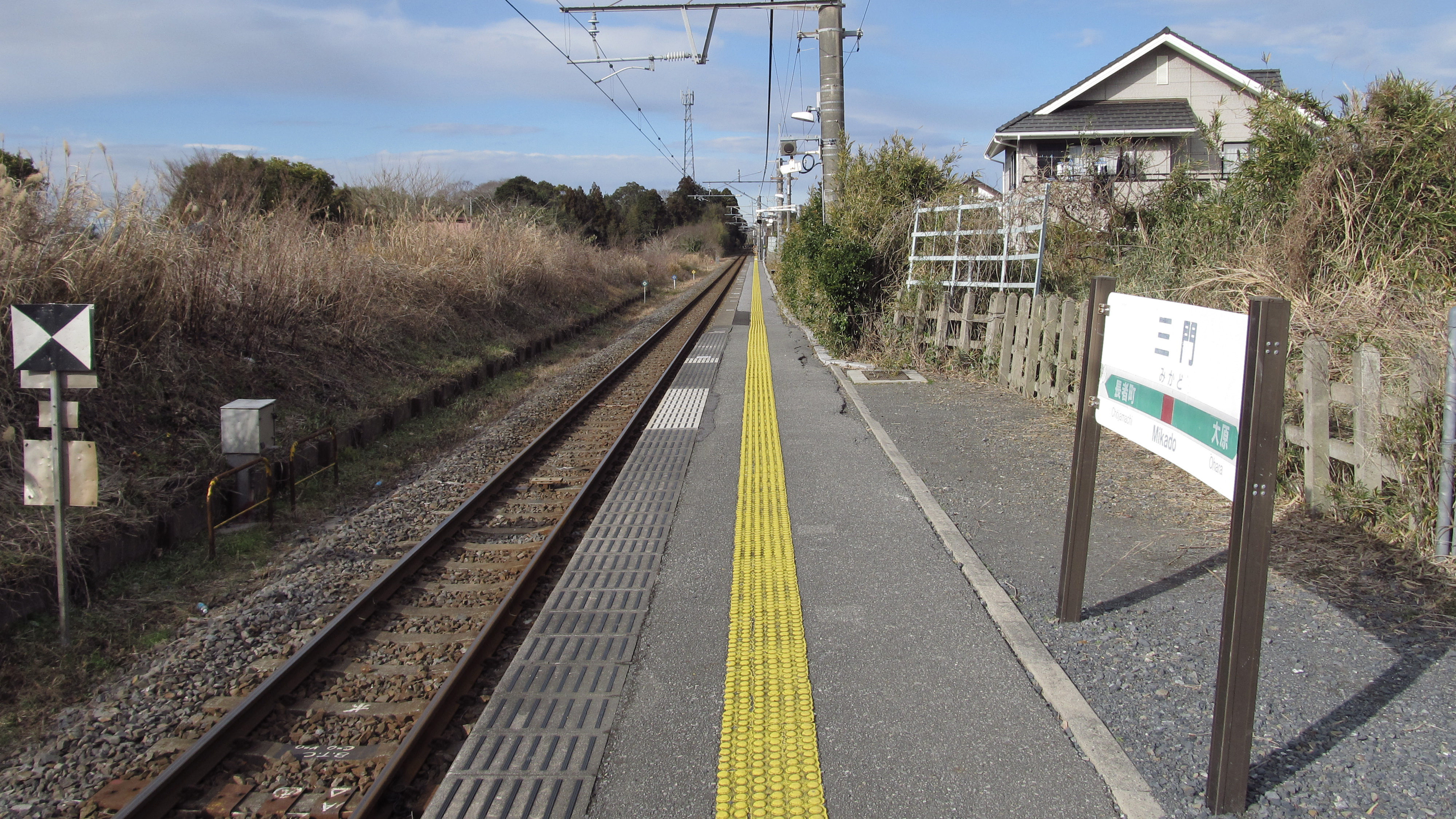 The platform at Mikado Station on the Sotobō Line in Isumi city, Chiba prefecture, Japan